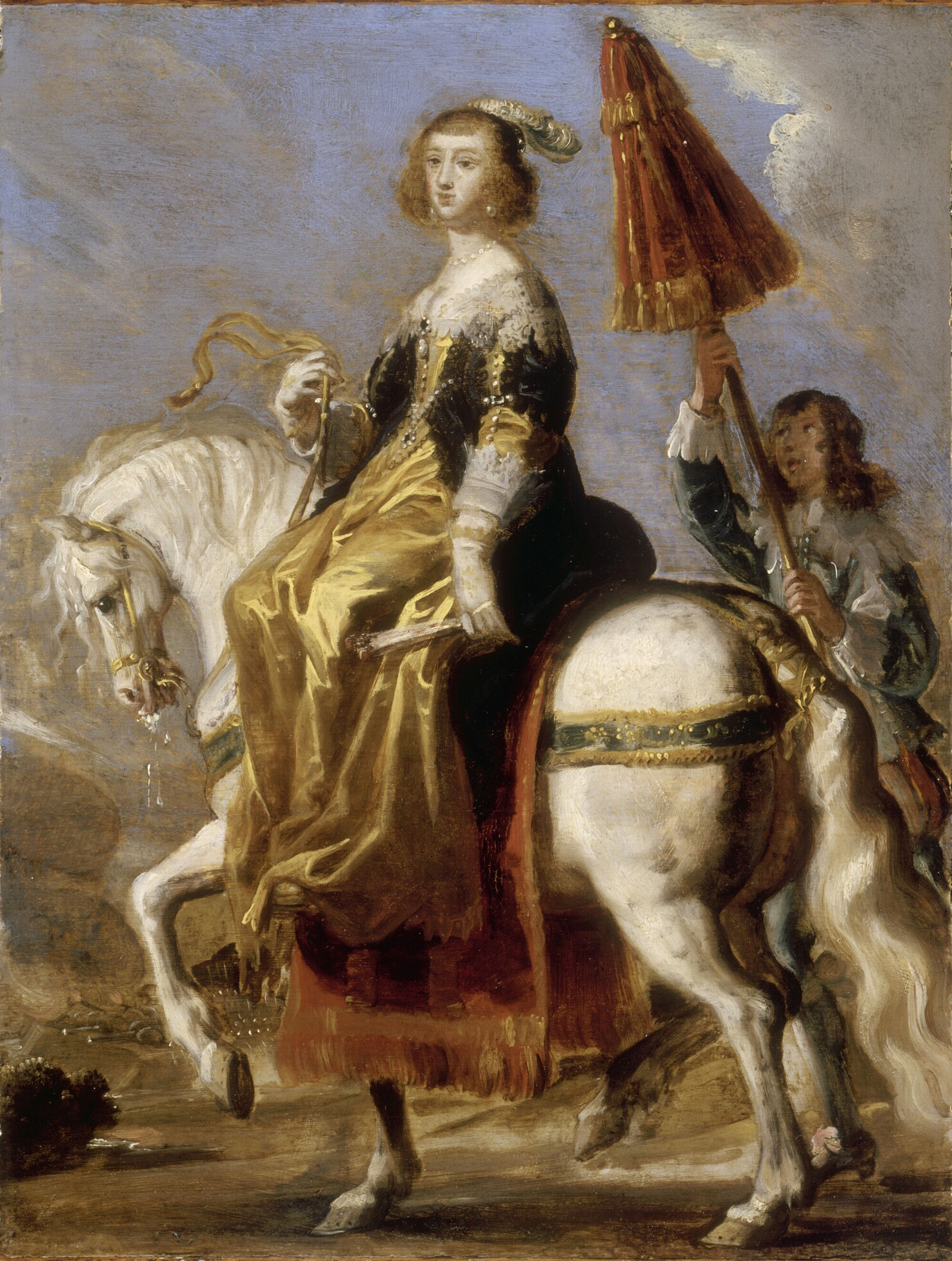 Portrait of Anne of Austria (1601-1666) riding a horse